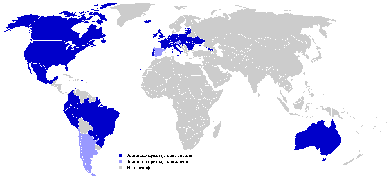 A map of countries which have recognised the Holodomor, with the legend in Serbian. (Deep blue - recognised as genocide, Light blue - recognised as a crime, Grey - not recognised). Српски (ћирилица): Карта држава које су признале Голодомор као геноцид, или једноставно као злочин.